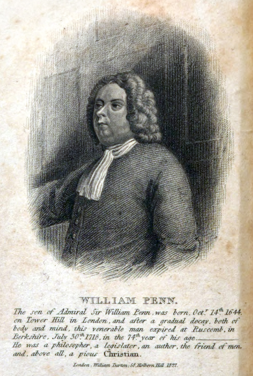 An illustration of William Penn included in Mary Hughes' Life of William Penn